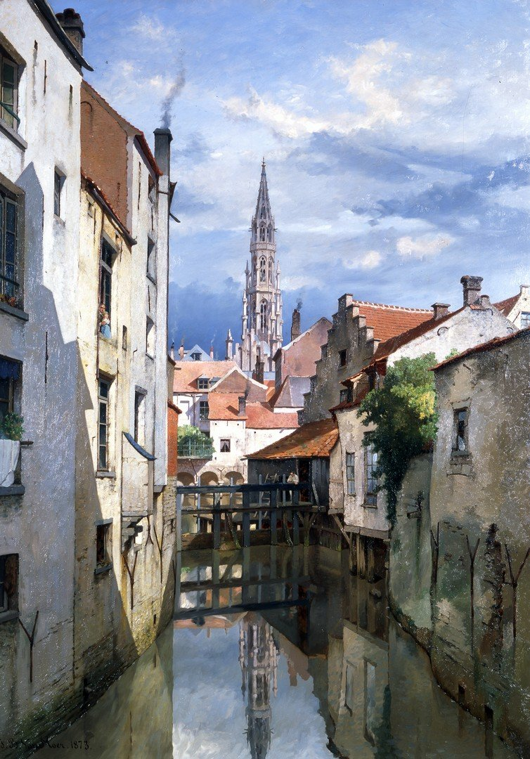 Rue Saint-Géry - Bras de la Senne et moulin de Ruyschmolen - 1873 - MVB, J368